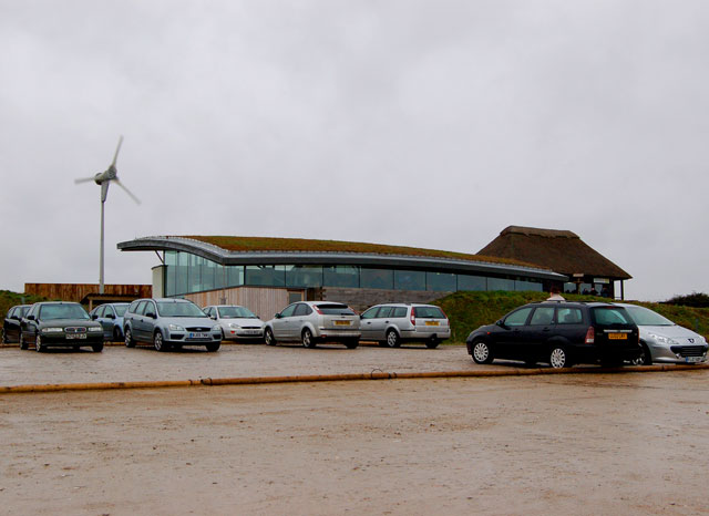 Visitor Centre near Cley This brandnew visitor centre is on the south side of the A149.